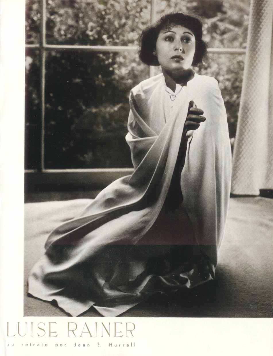 Publicity photo of Luise Rainer for Argentinean Magazine. (Printed in USA)